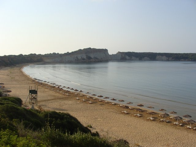 Gerakas beach early in the morning, when no visitors were there.